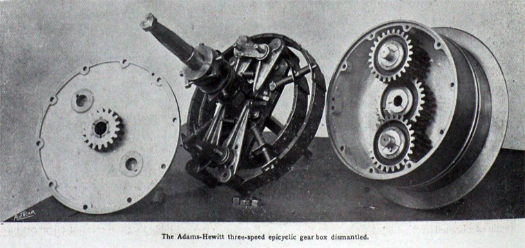 1907 Adams epycyclic gear dismantled